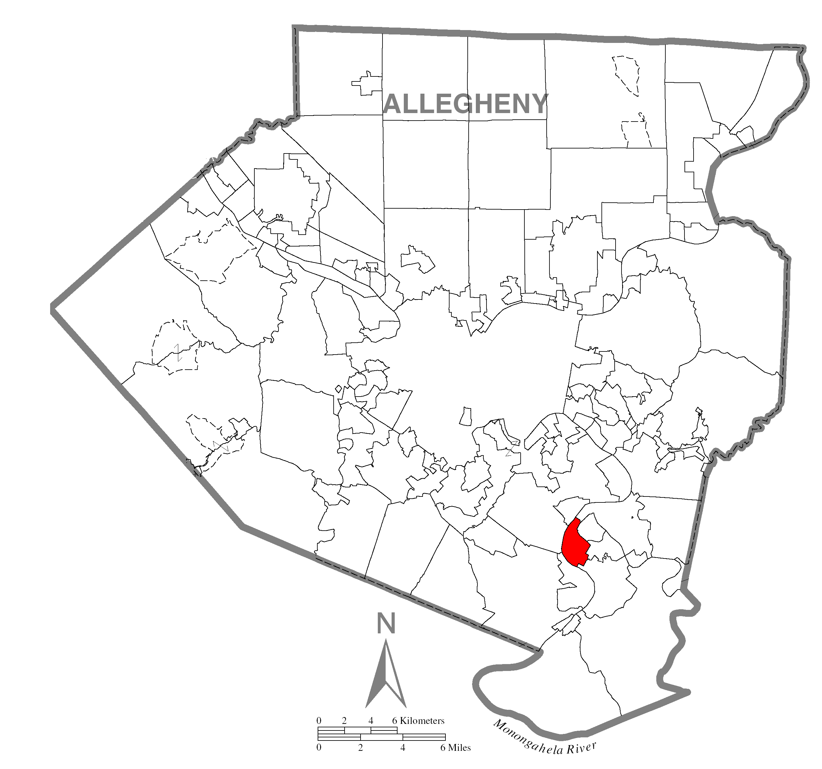 A map of Allegheny County showing Glassport, Pennsylvania (alternate) highlighted on the map.